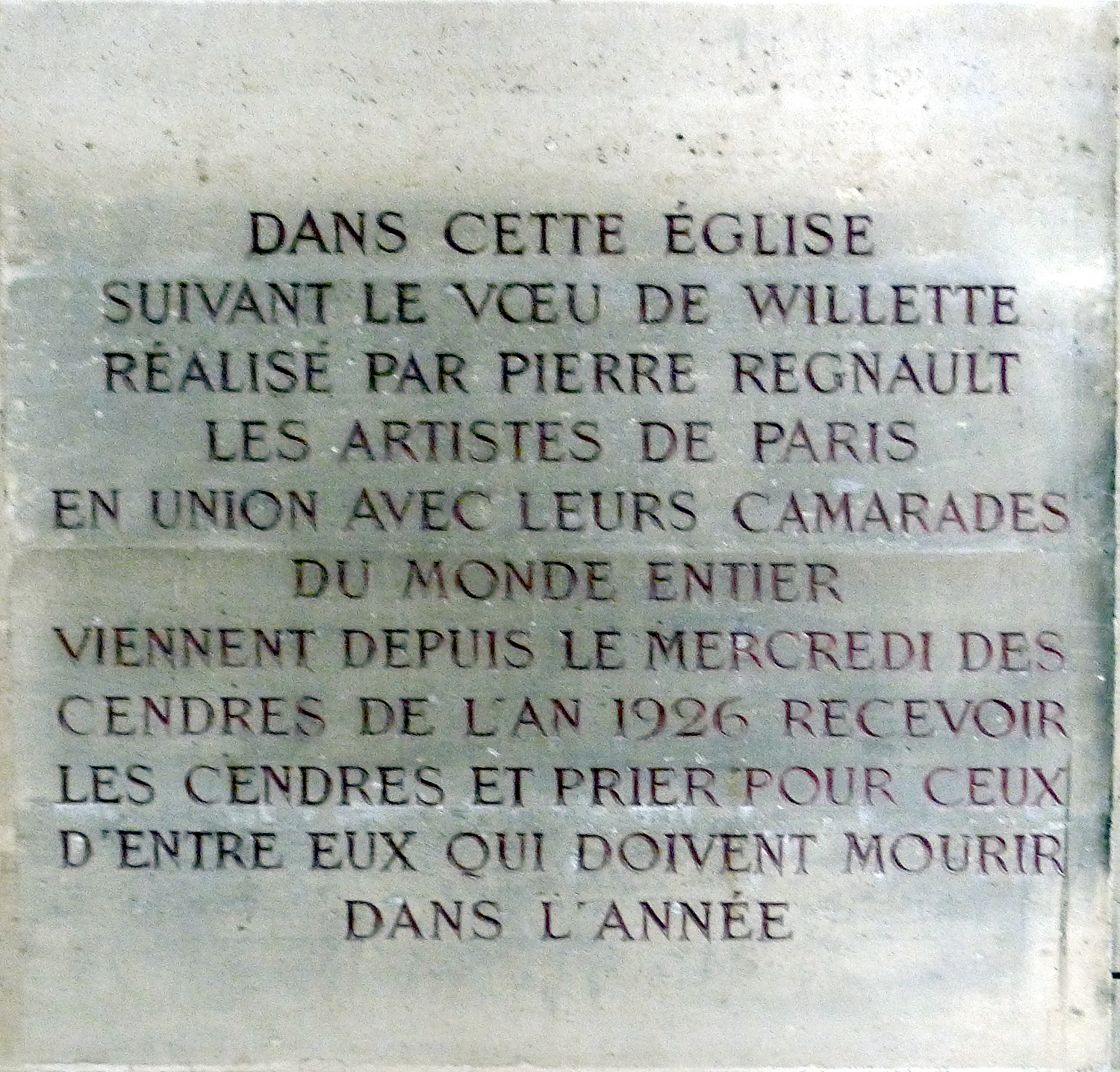 Saint-Germain l'Auxerrois church - Paris Ier